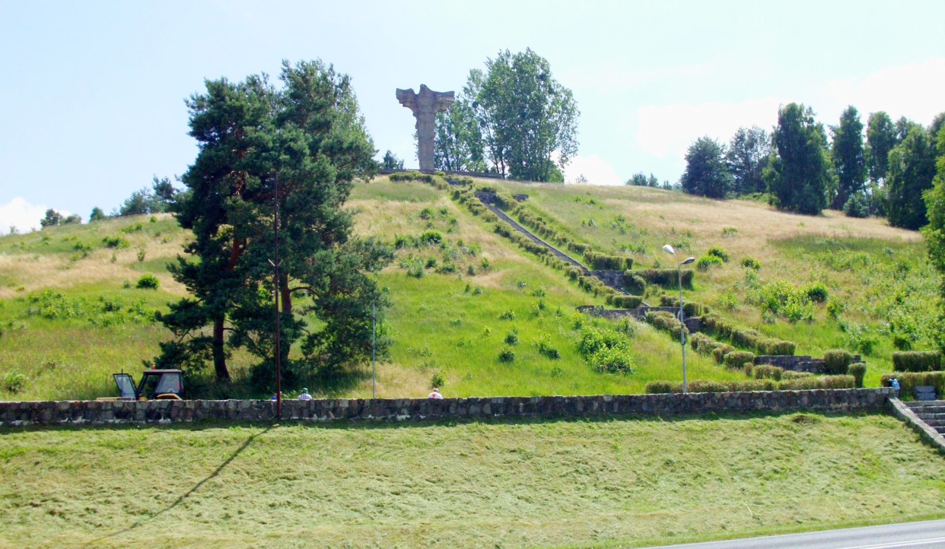 Monument to the Battle of Cedynia / Zehden (972)